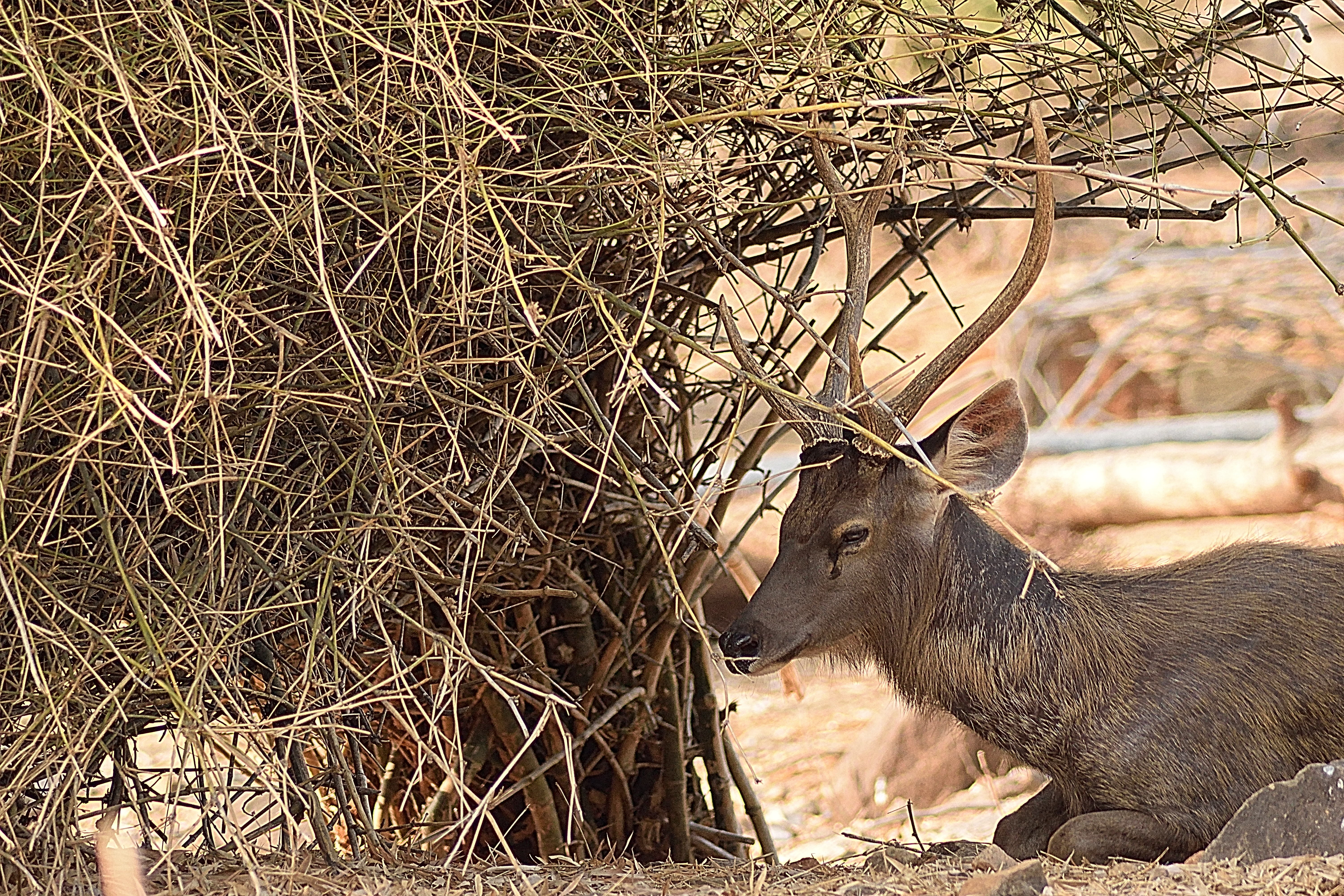 Deer in Vandalur Zoo